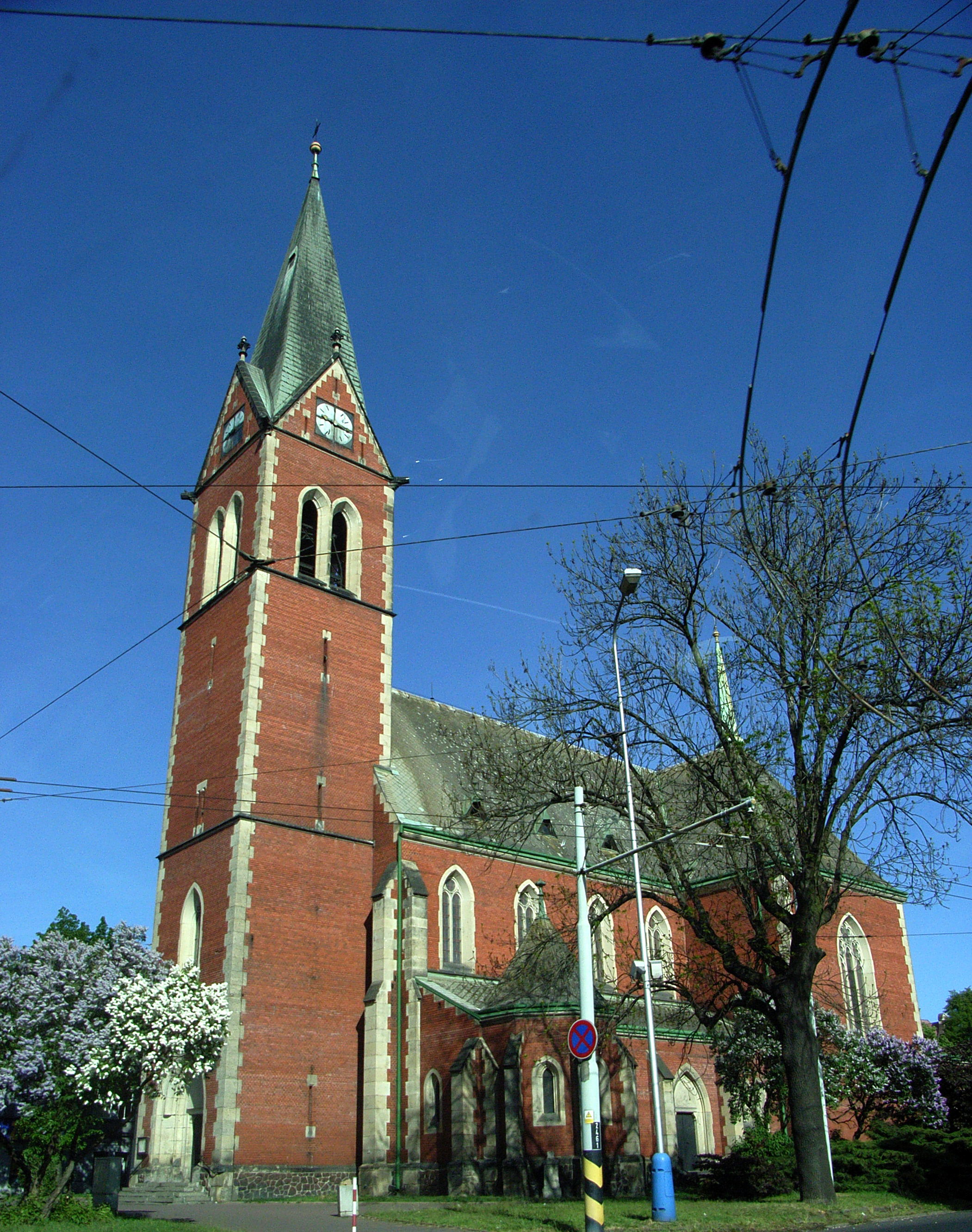 Church of the Sacred Heart of Our Lord (the "Red Church") in Teplice, Czech Republic.